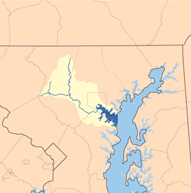 This is a map of the Patapsco River Watershed.